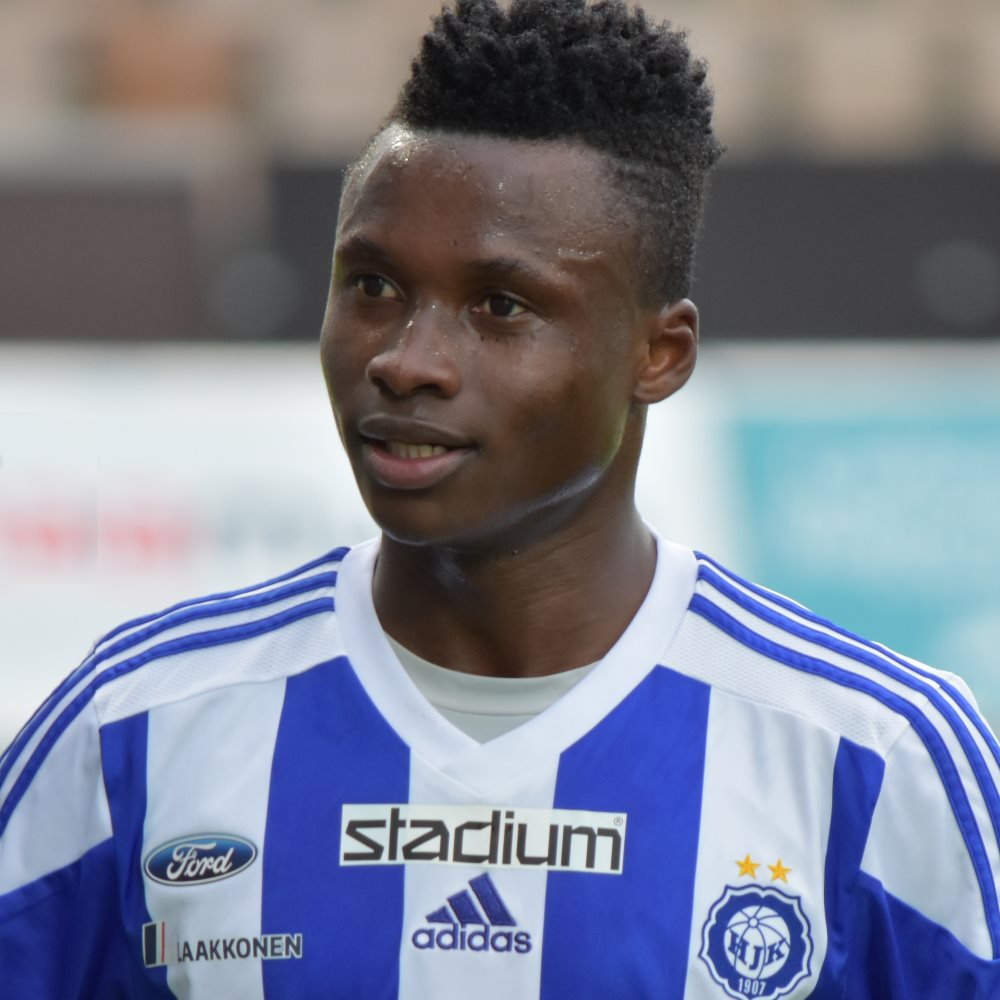 Football player Evans Mensah (HJK)